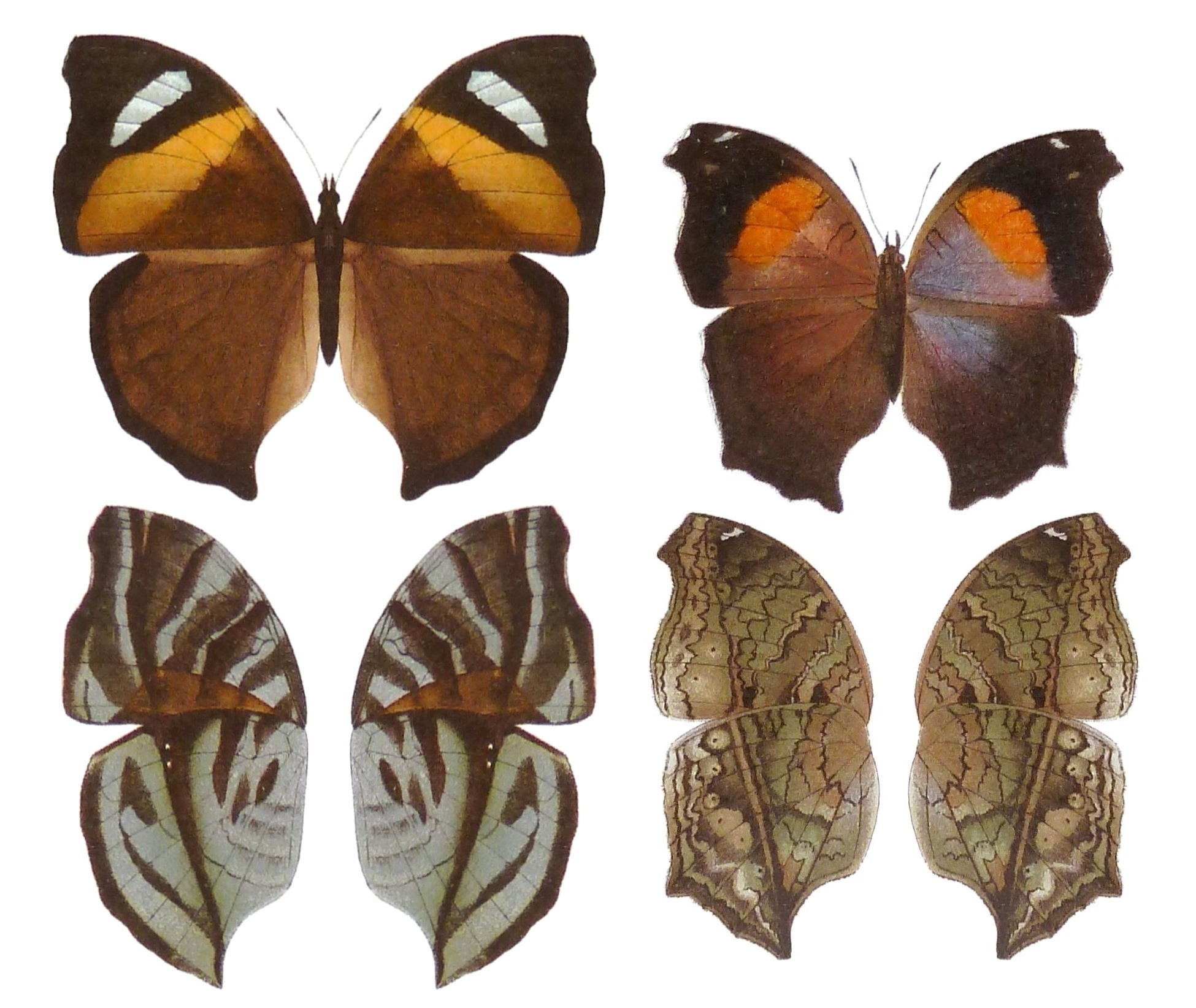 Adalbert Seitz Die Gross-Schmetterlinge der Erde 13: Die Afrikanischen Tagfalter. Plate XIII 50 Salamis anteva (Ward, 1870) Salamis cacta (Fabricius, 1793)